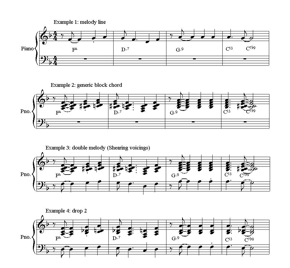 examples of block chords on pentagram(music)